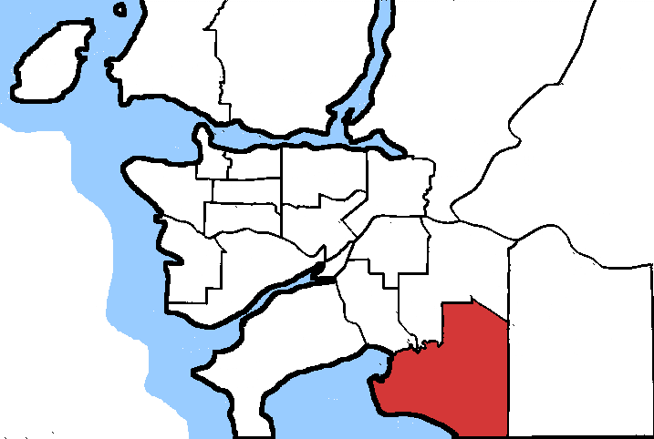 Map of the South Surrey—White Rock—Cloverdale electoral district. Based on Earl Andrew's maps, created by SimonP.